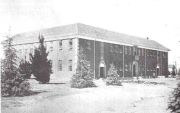 photo of building